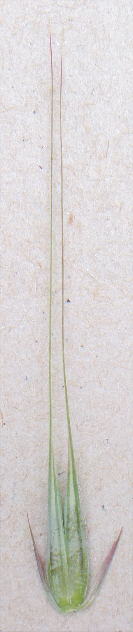 Awns of Secale cereale